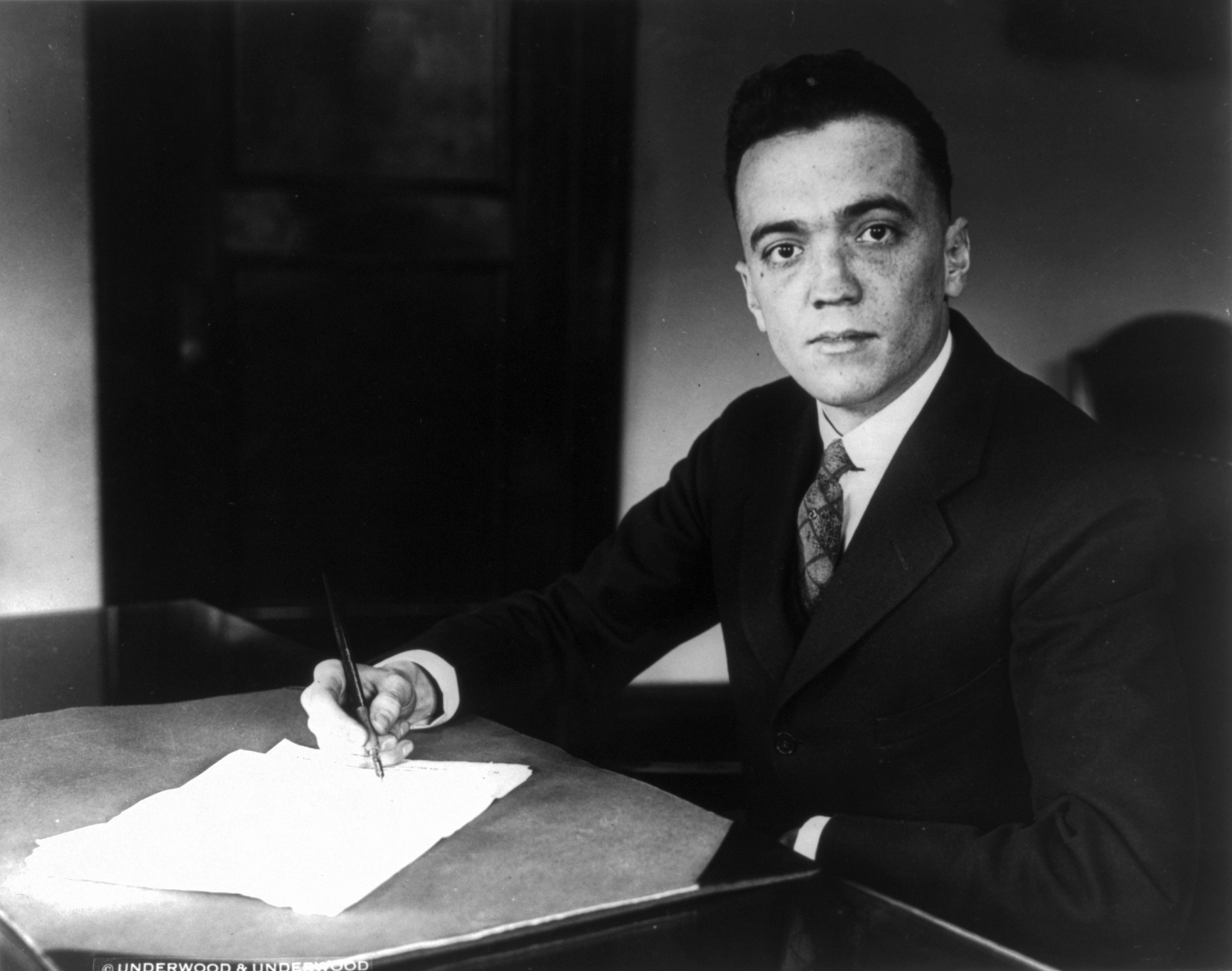 J. Edgar Hoover, half-length portrait, seated at desk, facing left